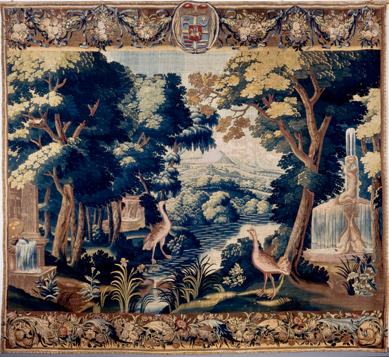 Verdure - Tapestry with Animals.